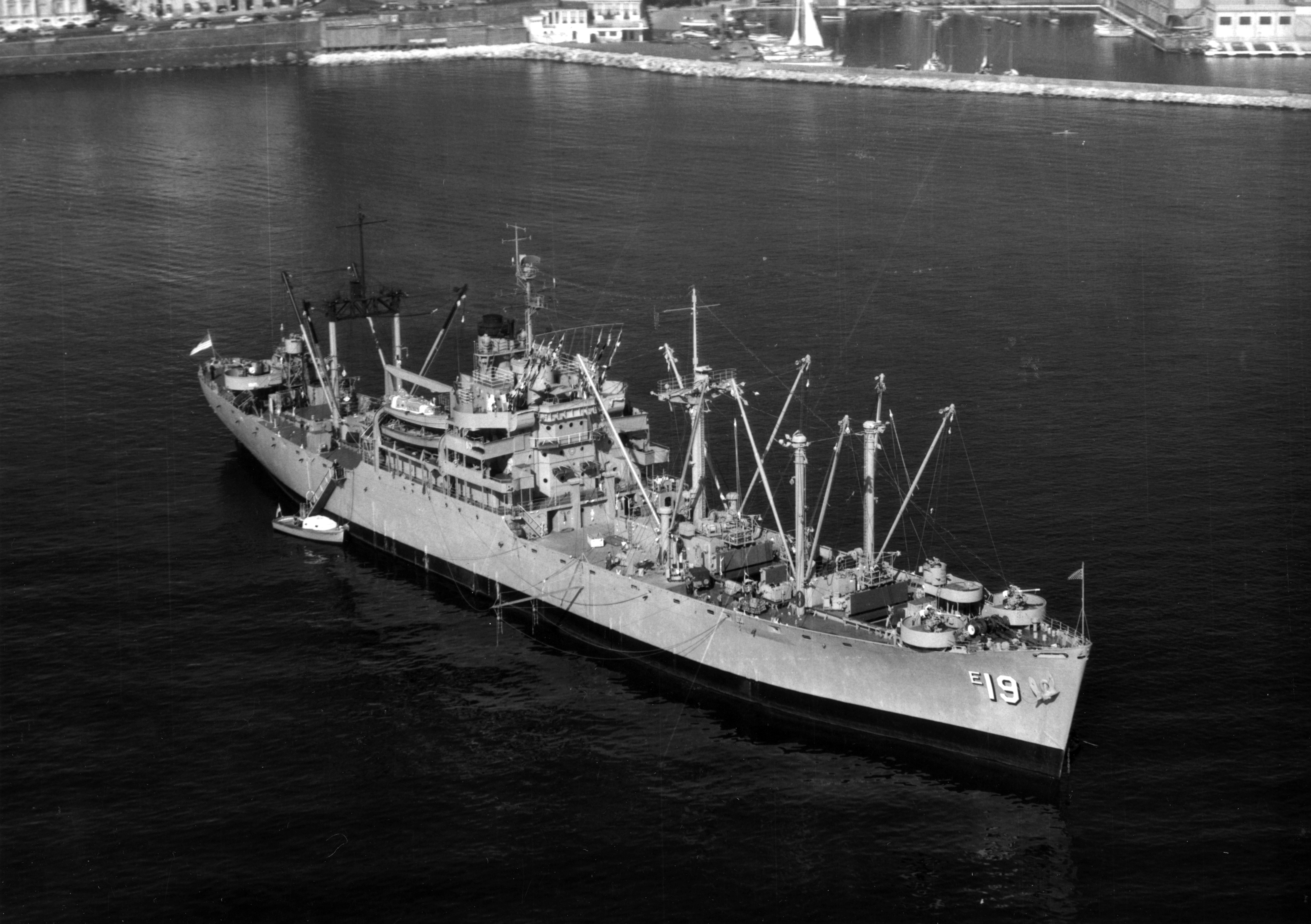 The U.S. Navy ammunition ship USS Diamond Head (AE-19) anchored off Naples, Italy, on 20 October 1960.